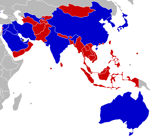 Status of countries involved in 2011 AFC Asian Cup qualification.